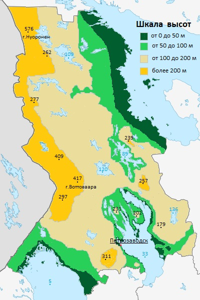 Physical map of Karelia. Scale of heights.